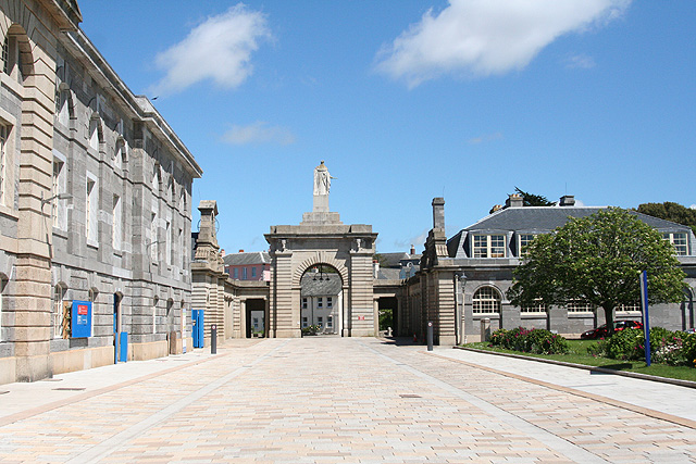 Plymouth: Royal William Victualling Yard At Stonehouse. Looking east-north-east towards the Greco-Roman style entrance at the former Royal Navy supply base. The statue aloft is of King William IV